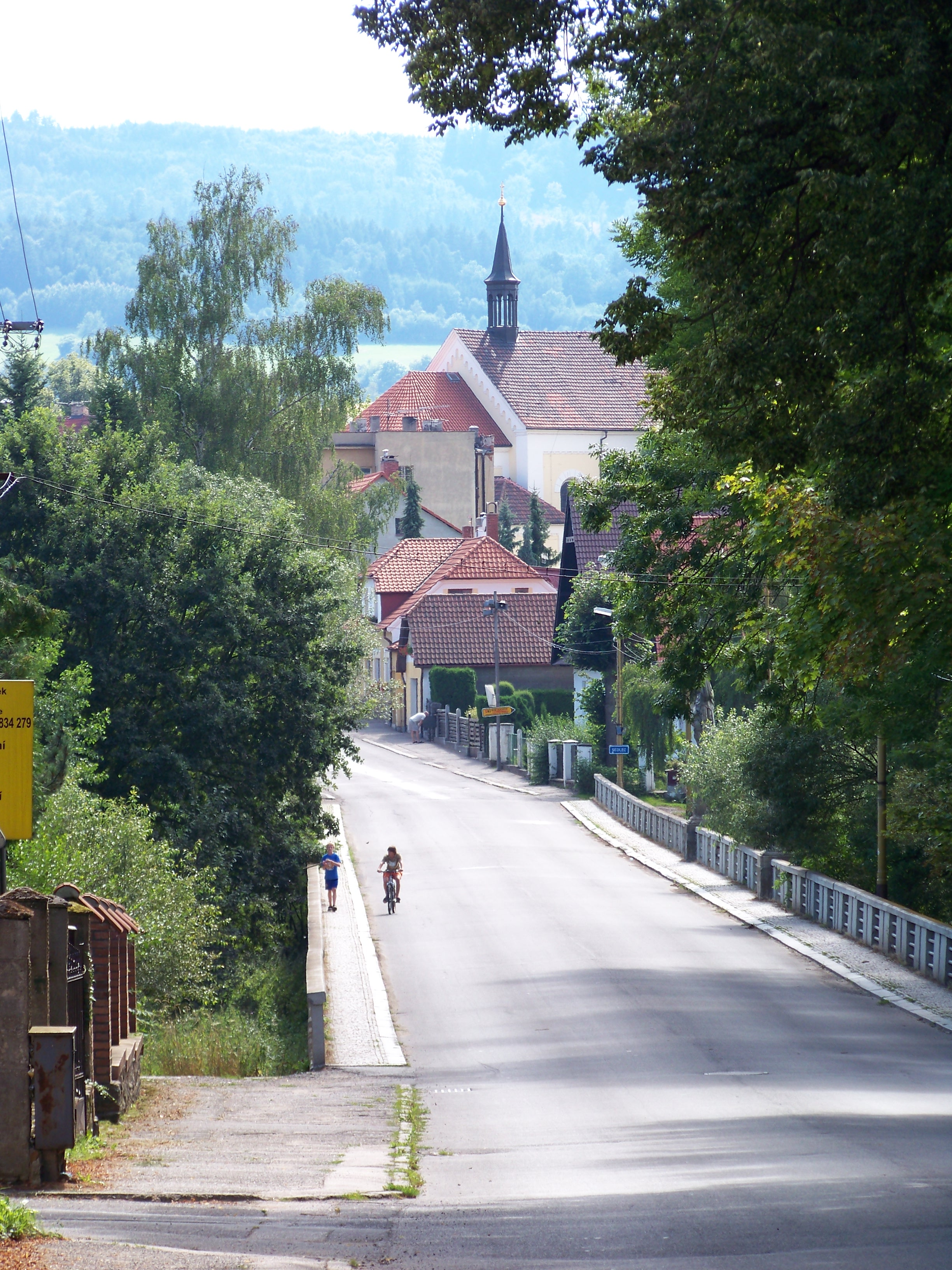 Prčice and Sedlec, Sedlec-Prčice, Příbram District, Central Bohemian Region, the Czech Republic. Karel Burka street, Karel Burka Bridge, Revoluční street in Sedlec.